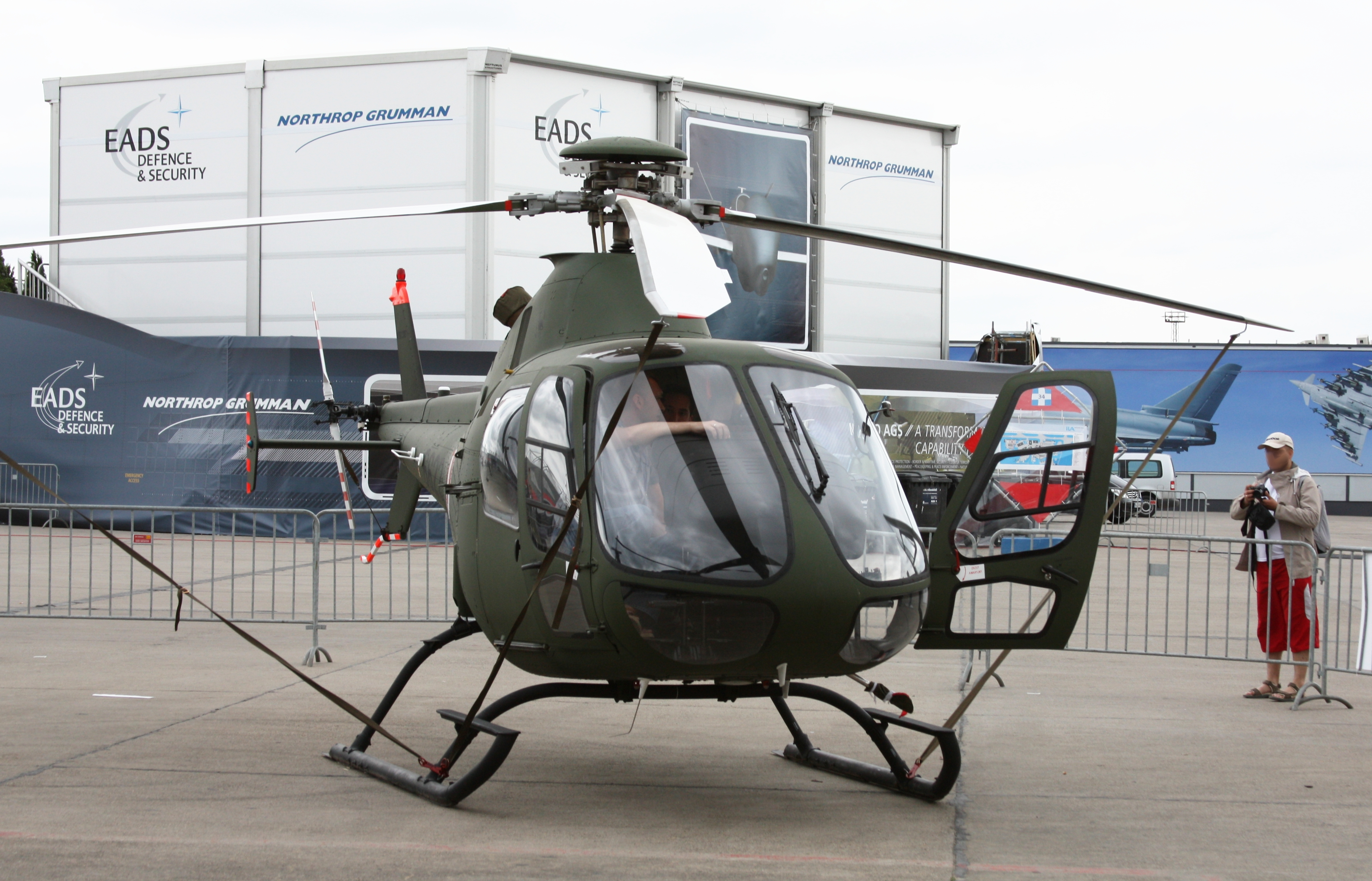 PZL SW-4 at ILA 2010.